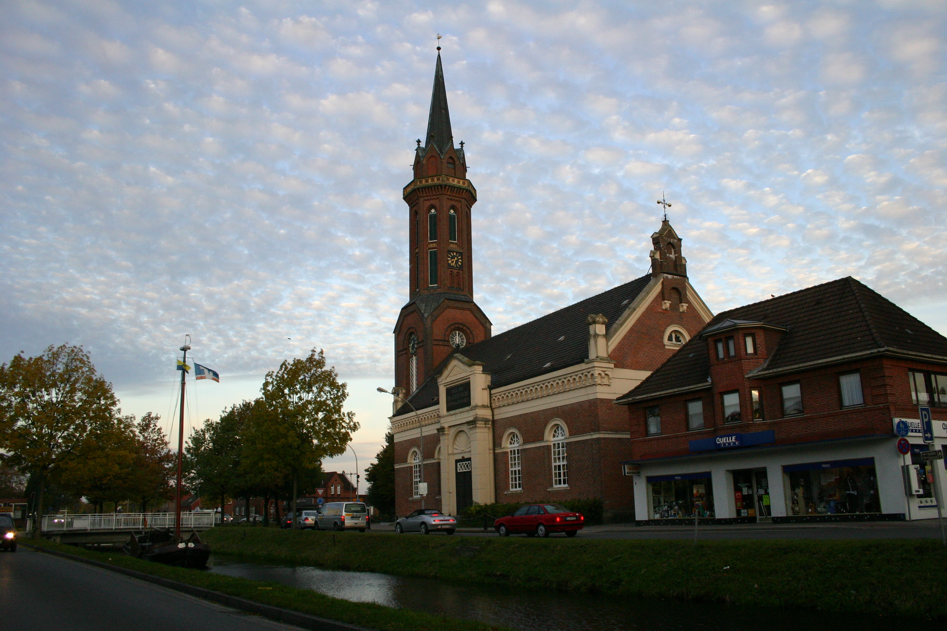 Church and canal in Westrhauderfehn (community of Rhauderfehn, district of Leer, East Frisia, Germany)